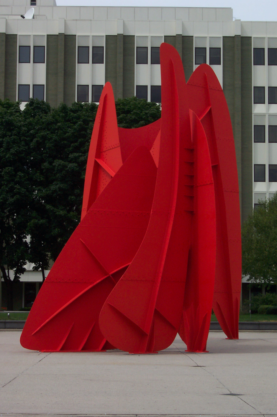 La Grande Vitesse (sculpture) by Alexander Calder, installed in Grand Rapids, Michigan in 1969